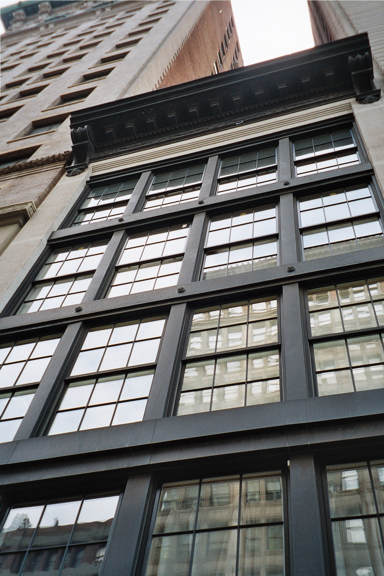 At one time the coolest rock club in the world. There's now a deli on the first floor.